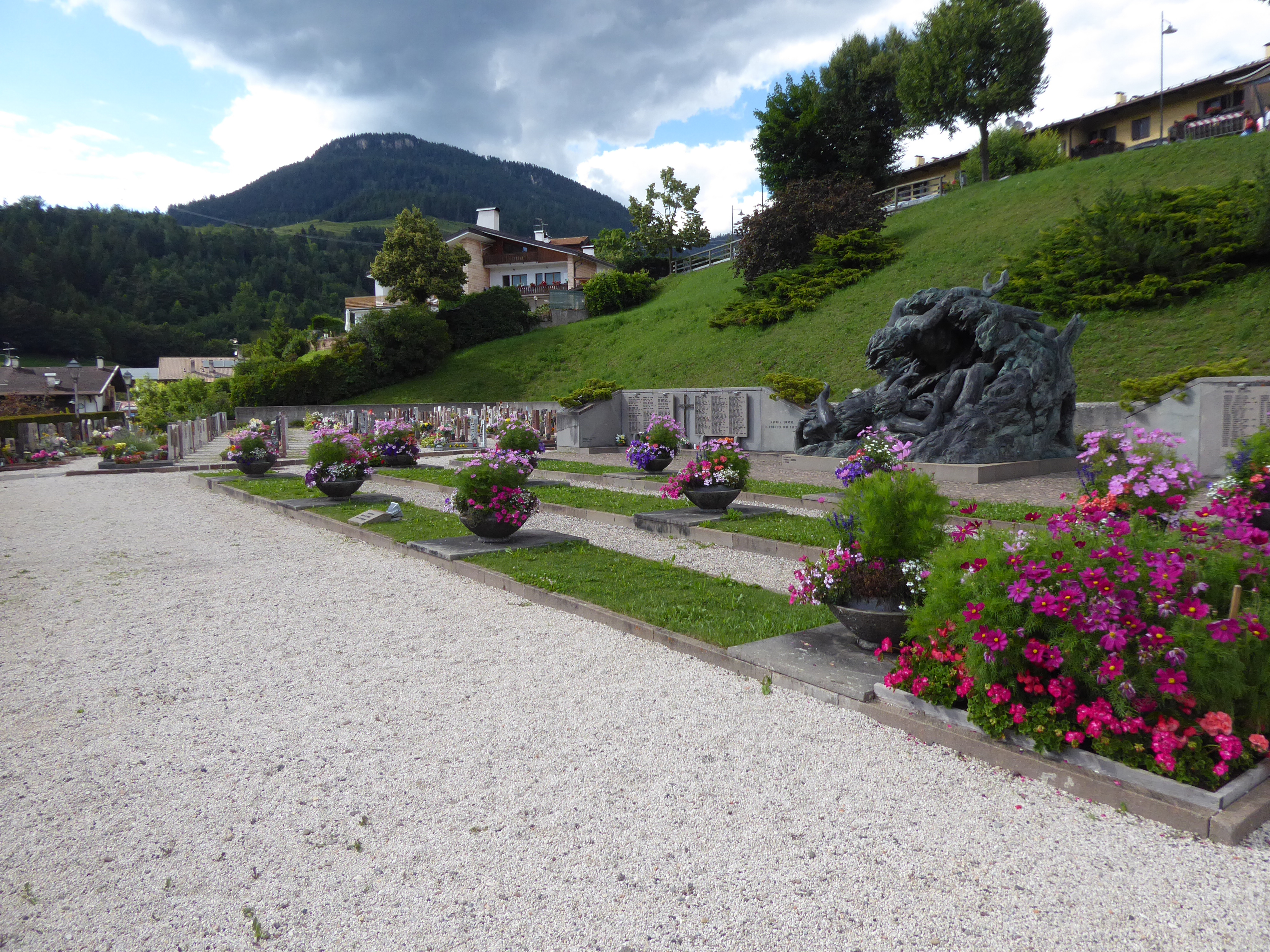 Tesero (Trentino, Italy), cemetery of the victims of the Stava disaster